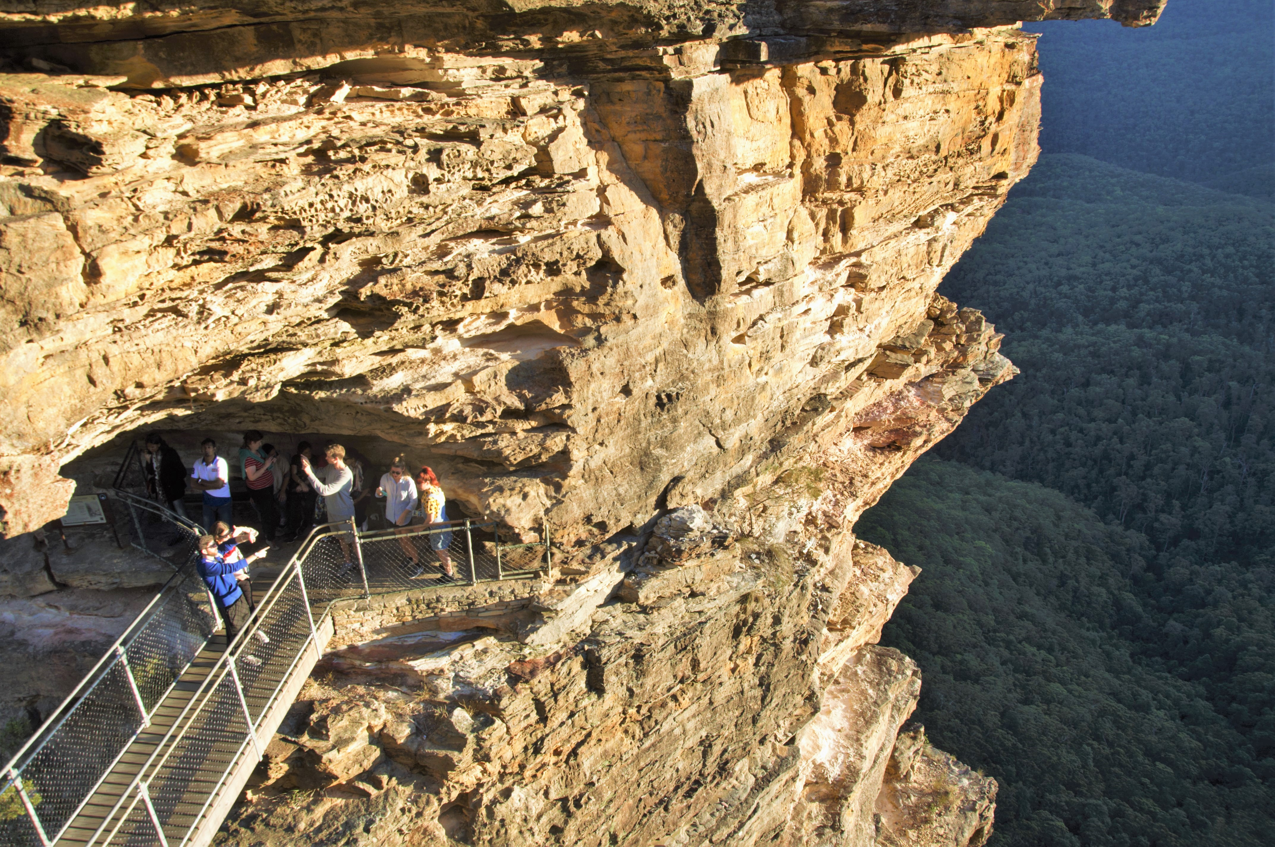 The tourists get close touch to the Rock Peak Meehni of the Three Sisters in the Blue Mountains,New South Wales, Australia. This photo has been taken by Prof.Chen Hualin.